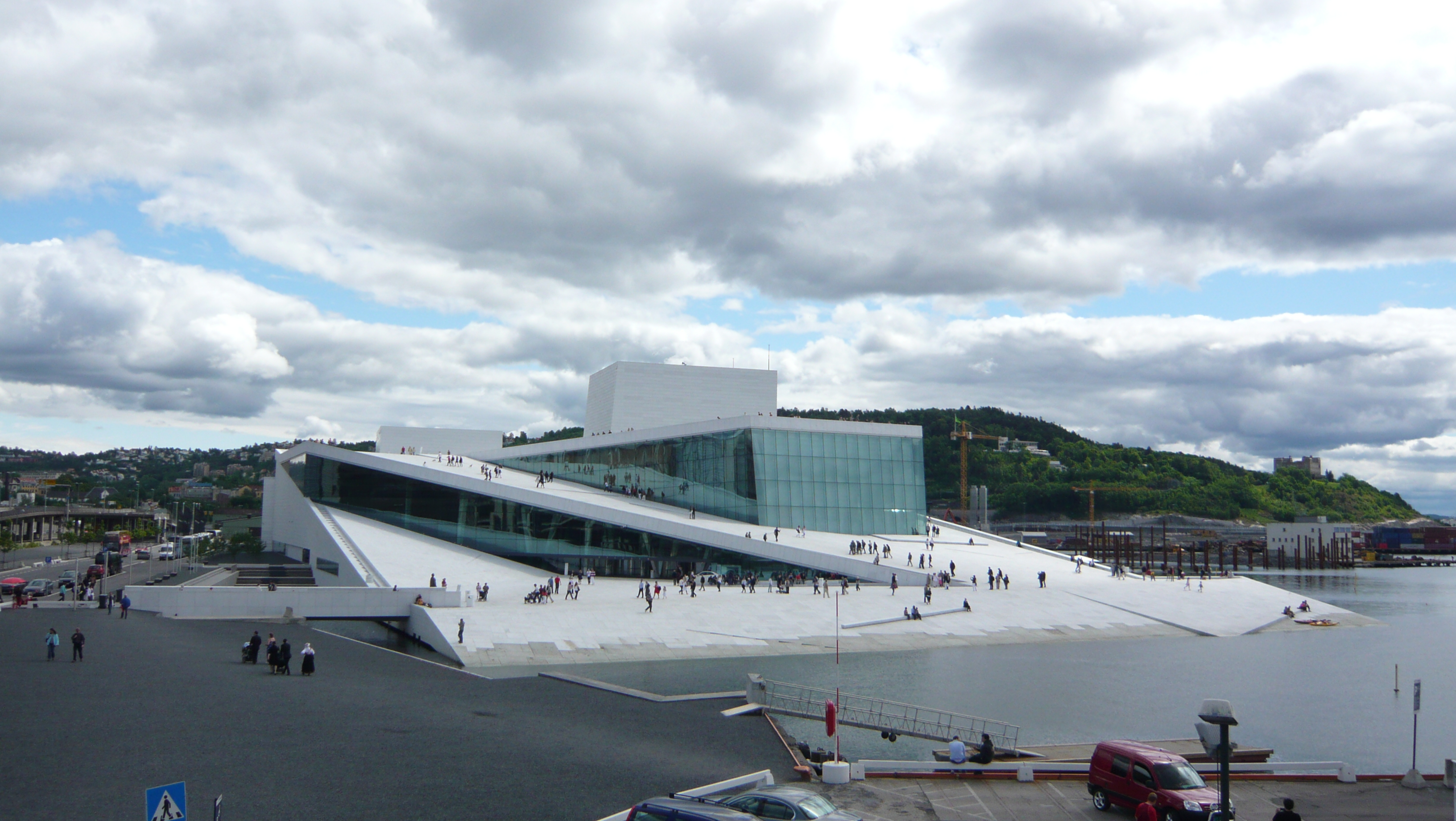 Oslo Opera House, June 2009